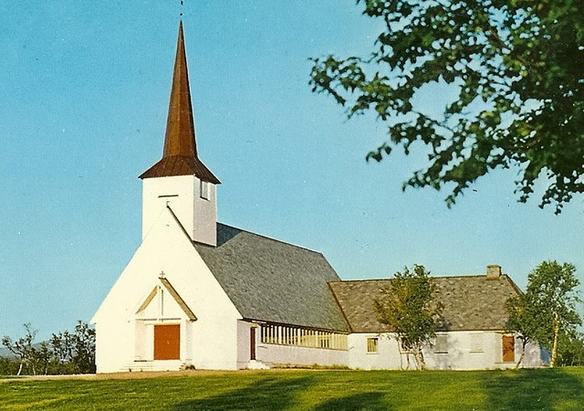 Lakselv kirke (church) from 1963. Architect Eyvind Moestue.